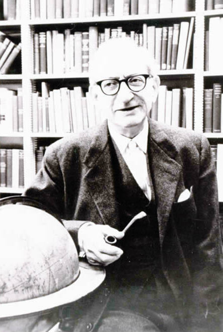 Professor Jerome Hall, Indiana University School of Law, Bloomington